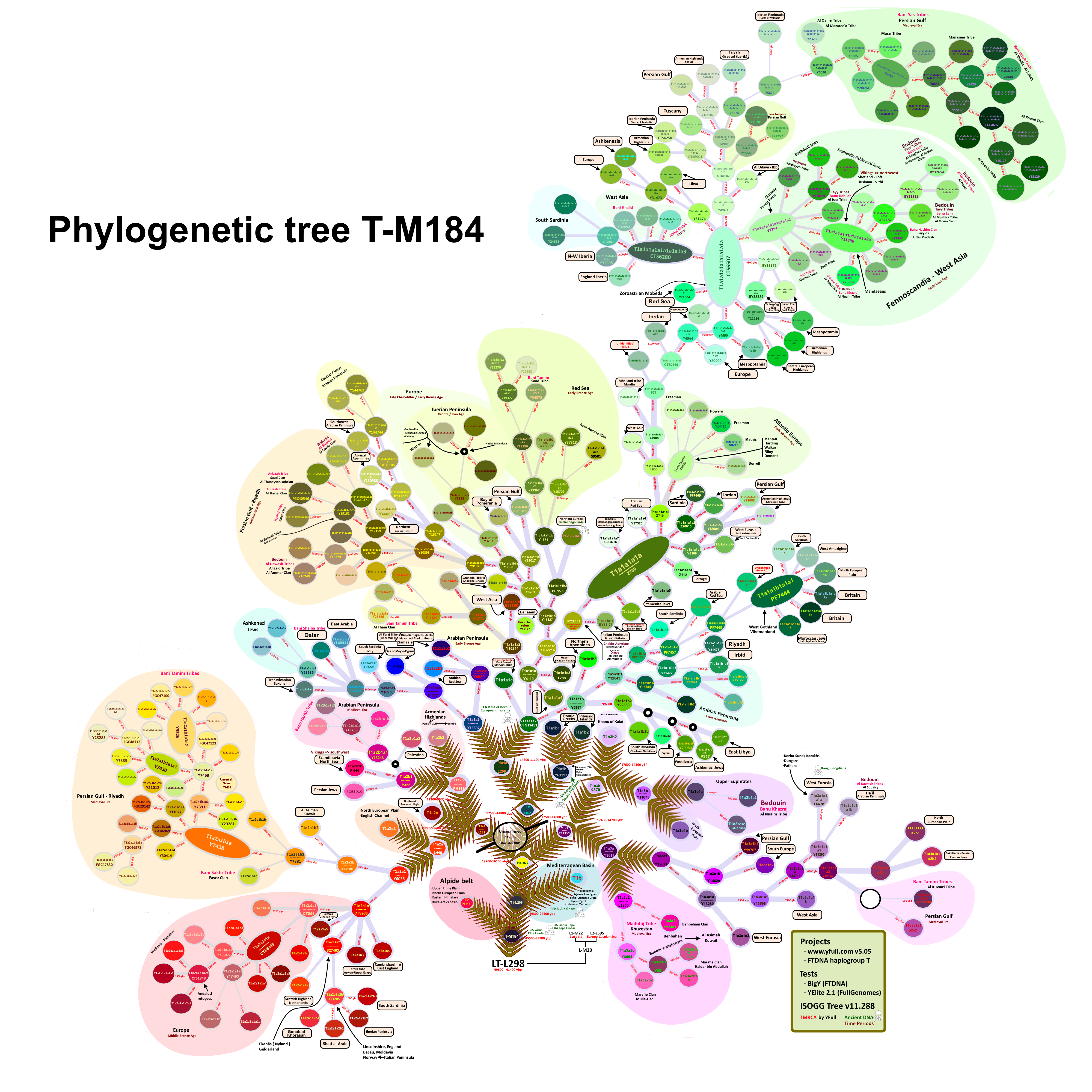 Phylogenetic tree of the T-M184 y-chromosome haplogroup